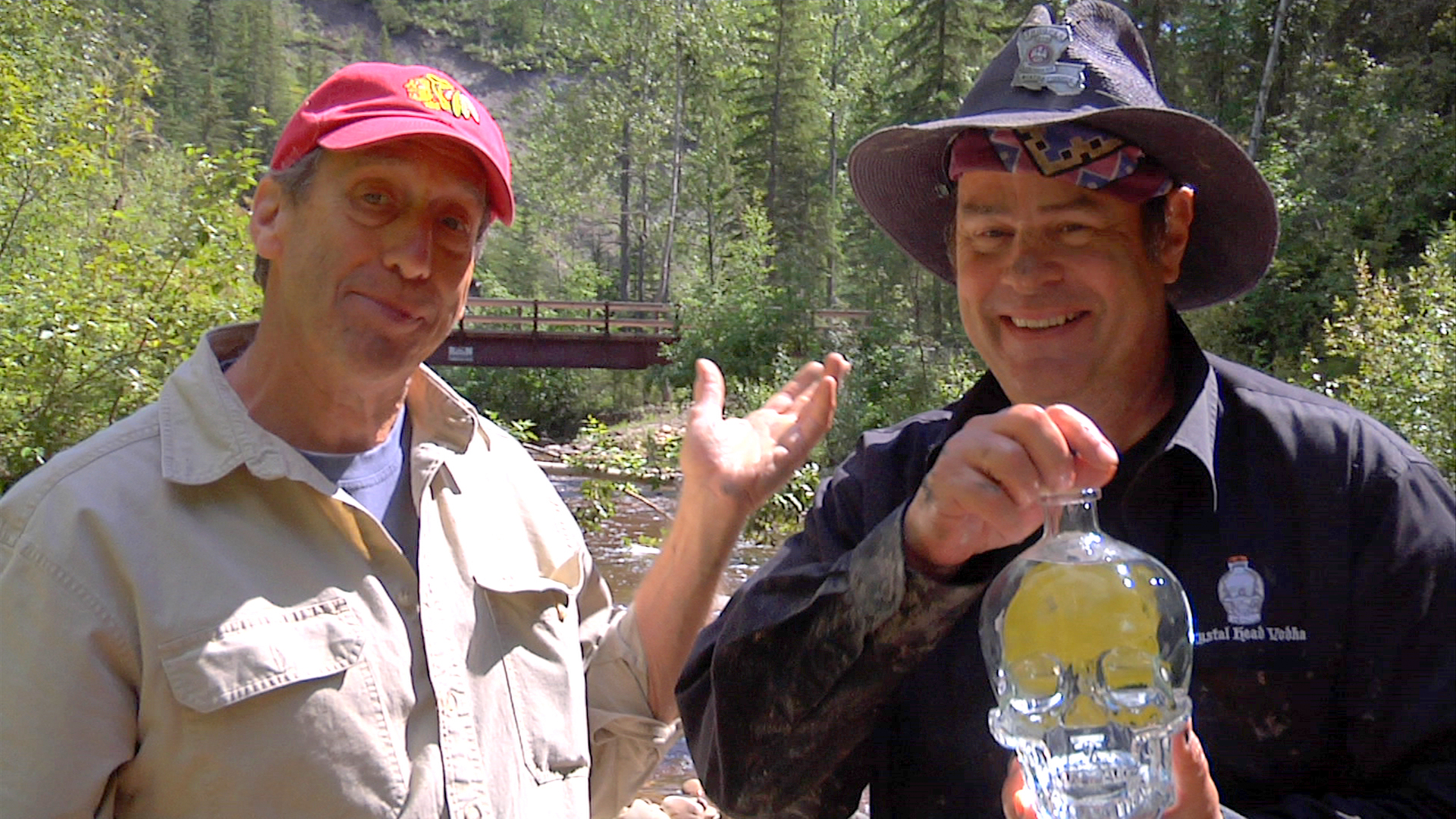 Dan Aykroyd, John Alexander and Crystal Head Vodka at the 2011 Dino dig in Alberta, Canada.